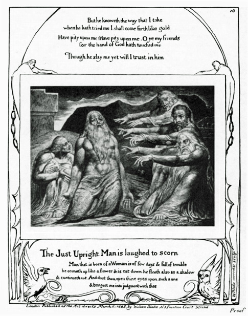 Plate from William Blake's Illustrations of the Book of Job